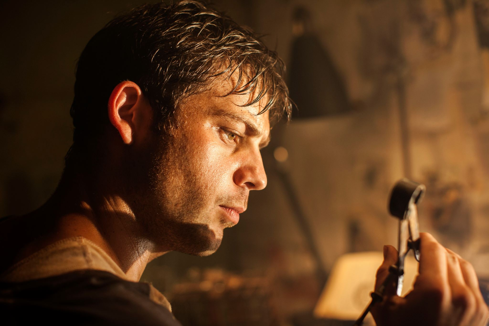 Lindsay Farris playing the role of Adam in the short film Shift.